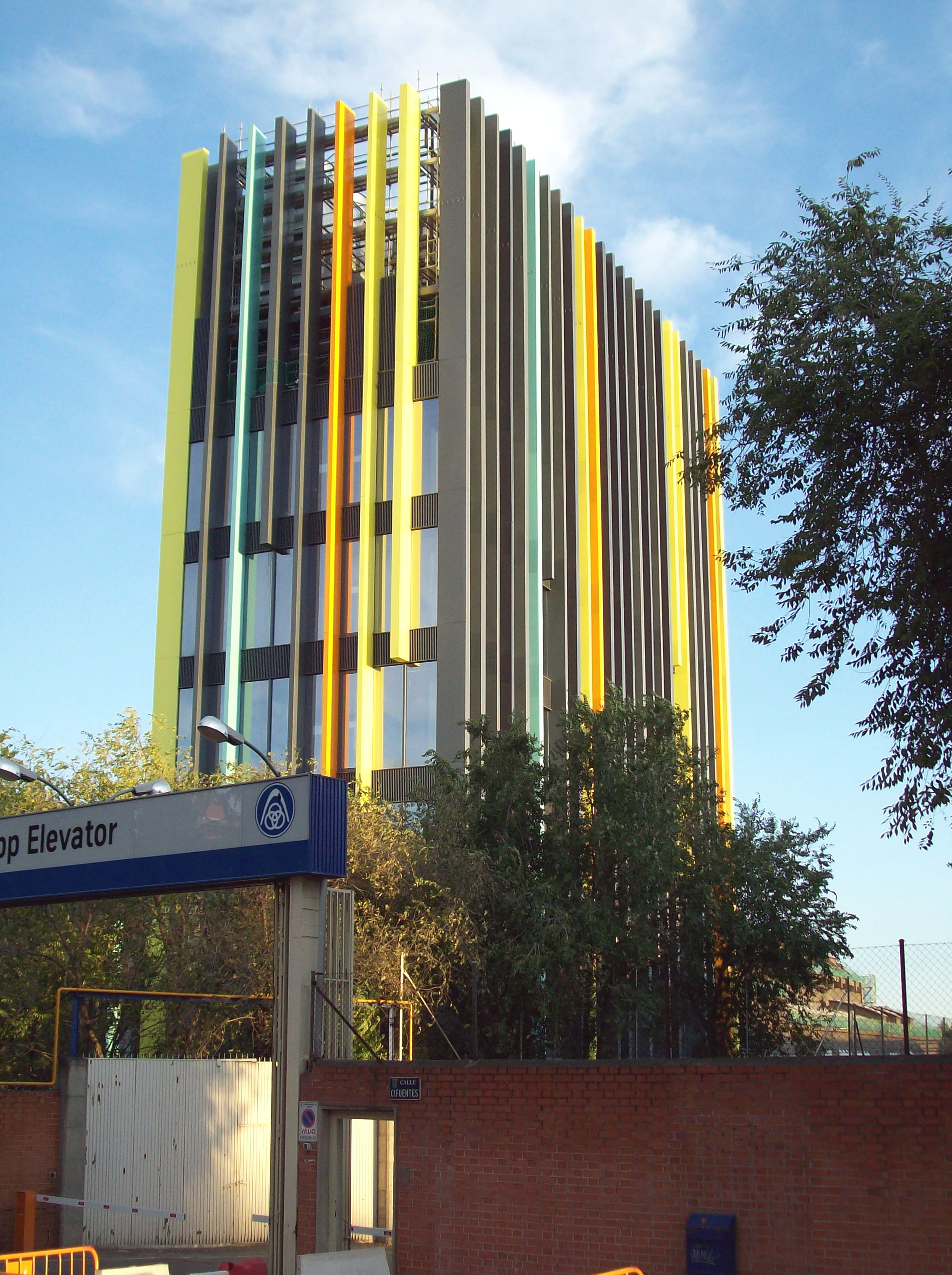 Partial view of Catedral de las Nuevas Tecnologías in Madrid (Spain).